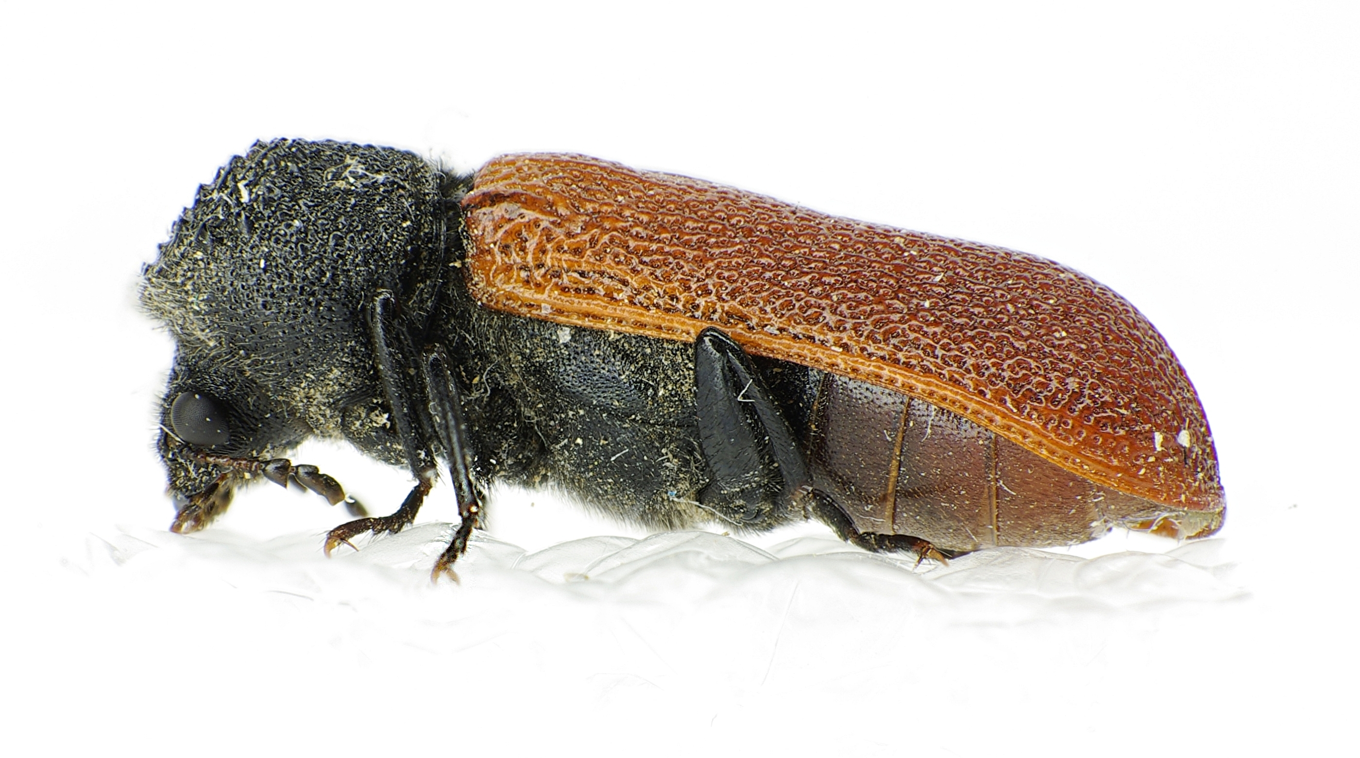 Bostrichus capucinus from Southern France